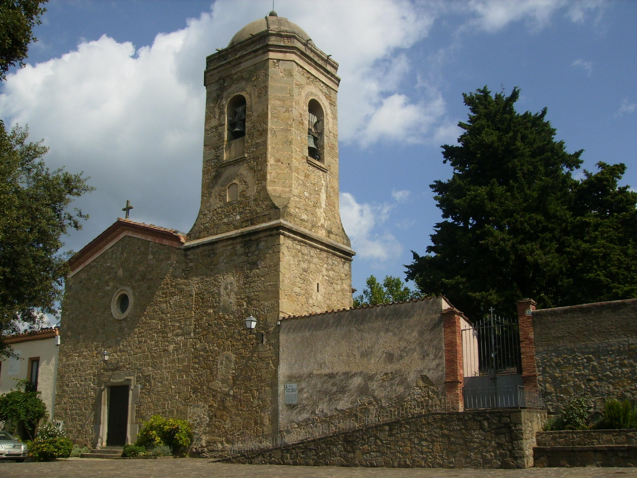 El Mallol church (Catalonia)